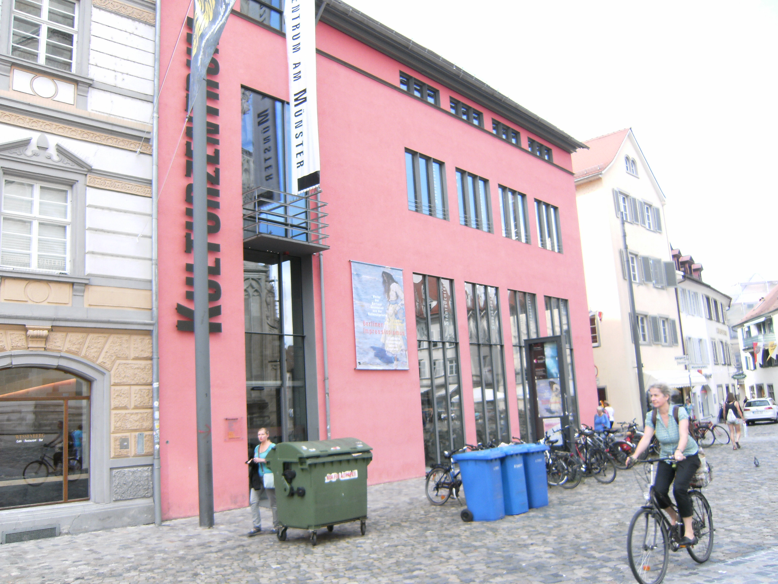 Konstanz, Wessenbergstraße 43: Kulturzentrum am Münster (cultural center) with Wessenberg-Galerie (gallery), Kunstverein (art association) and Stadtbücherei (library).